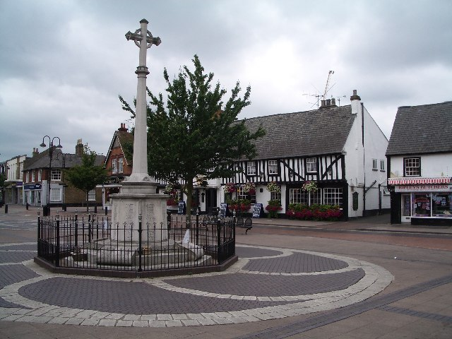 Hoddesdon town centre showing the war memorial